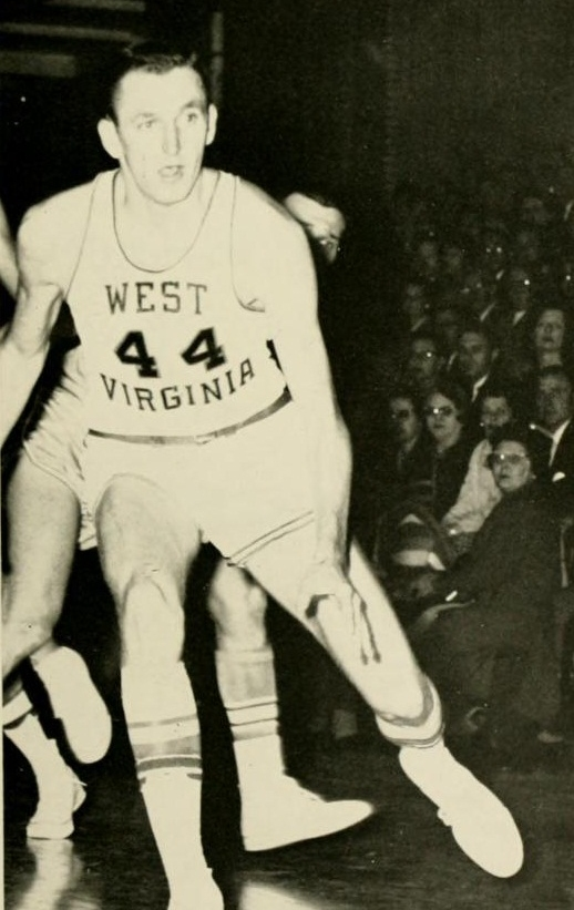 Photograph of West Virginia Mountaineers basketball player Rod Thorn